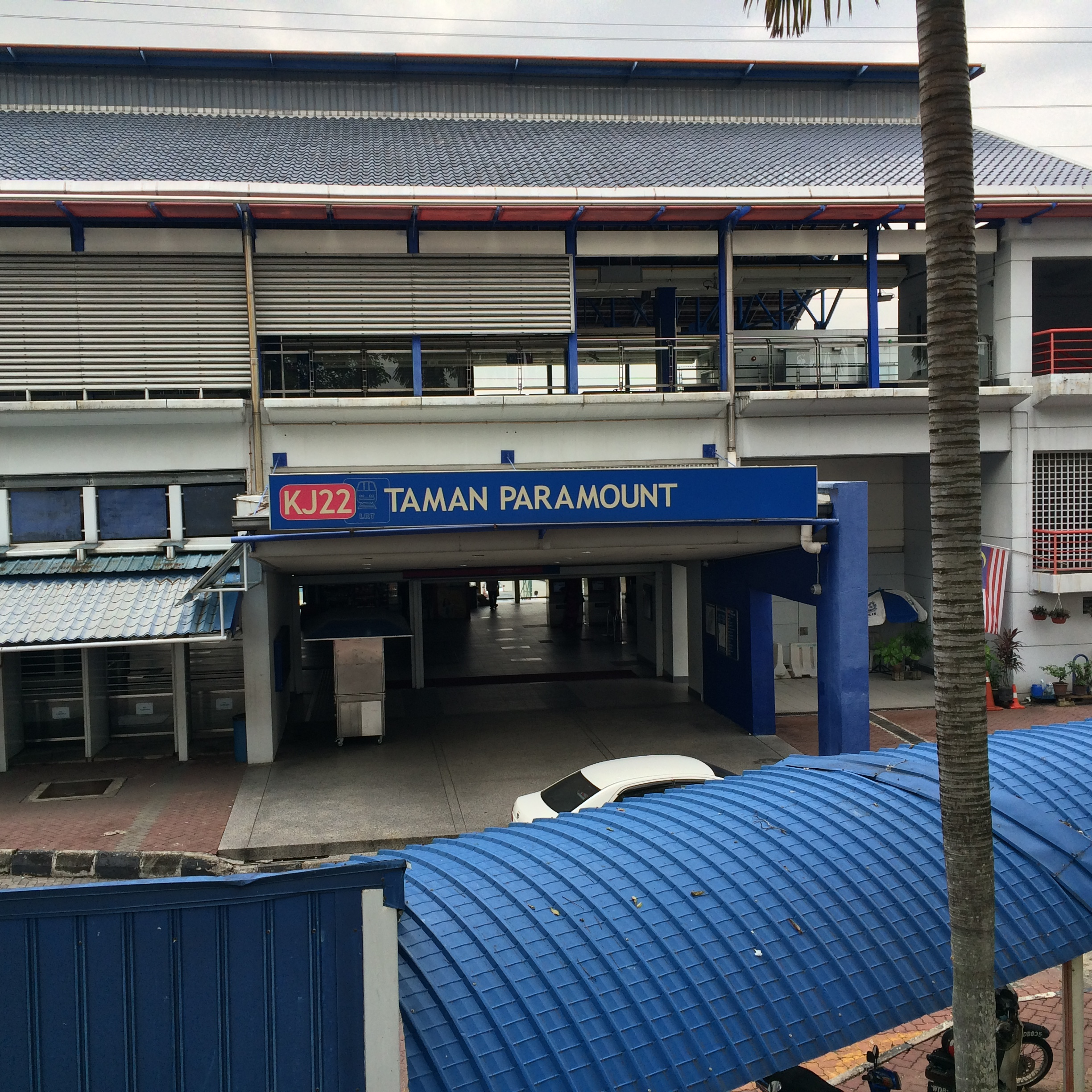 station - Taman Paramount